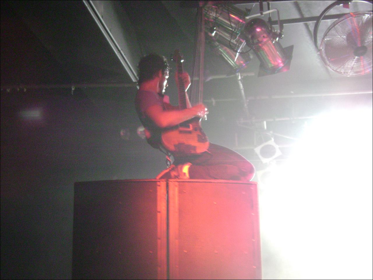 Dillinger Escape Plan 21-05-08